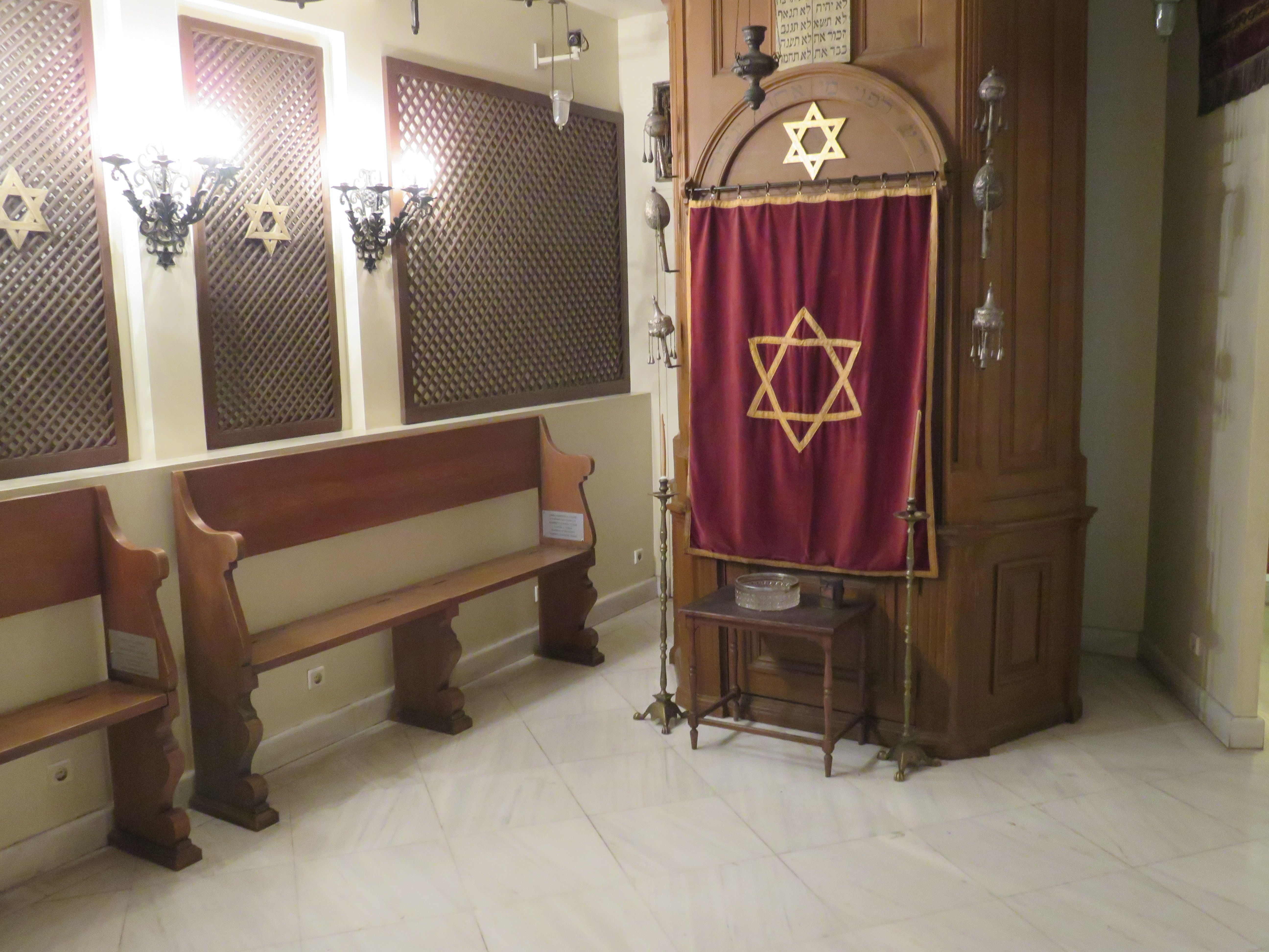 The Synagogue of the Greek city - Patras. In the Jewish Museum of Greece in Athens